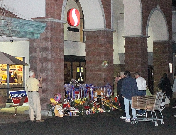 Makeshift memorial at massacre site. Photographed January 15, 2011 at location of Gabrielle Giffords shooting. Photo by Steve Karp.